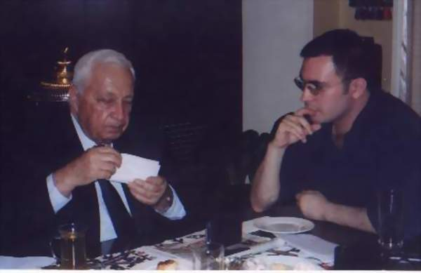 Ariel Sharon and Michael Falkov